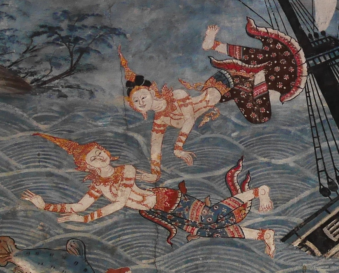 วัดหน่อพุทธางกูร